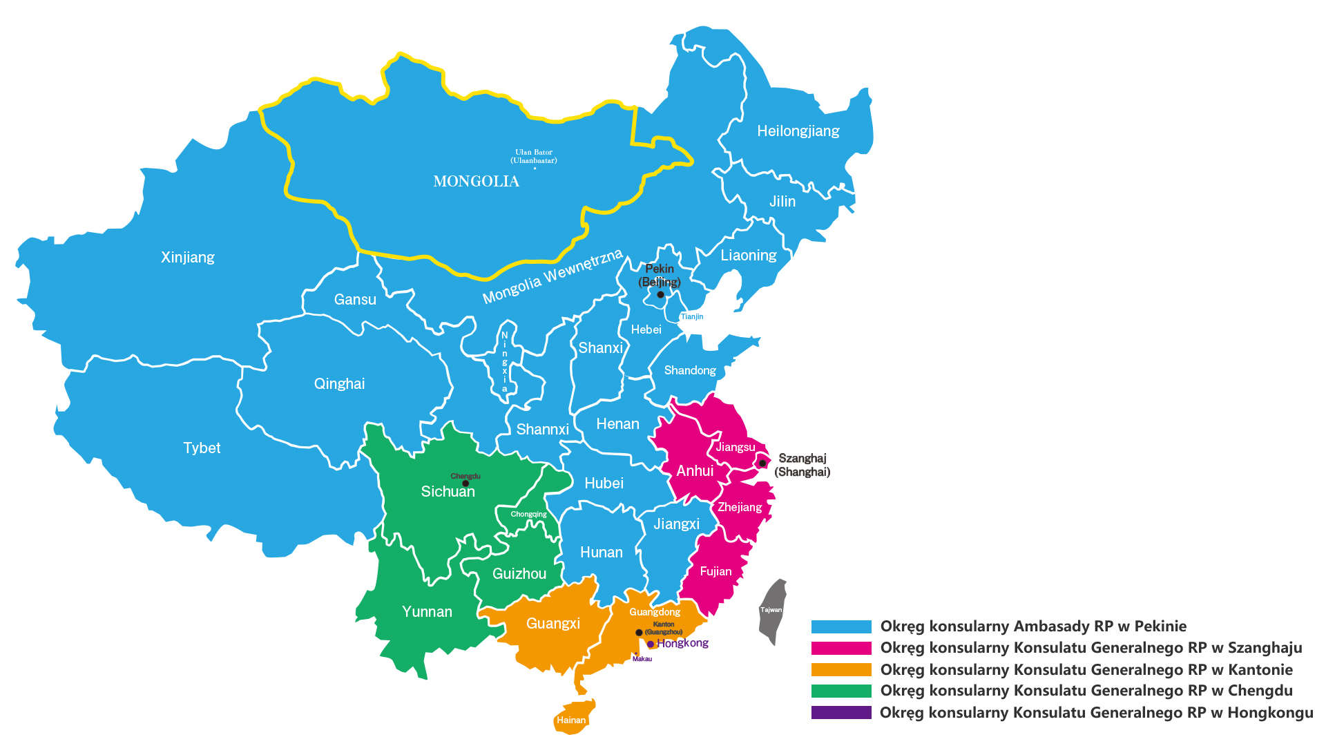 Consular districts of Polish consulates in China